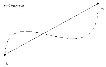 Optical path in an isotropical material